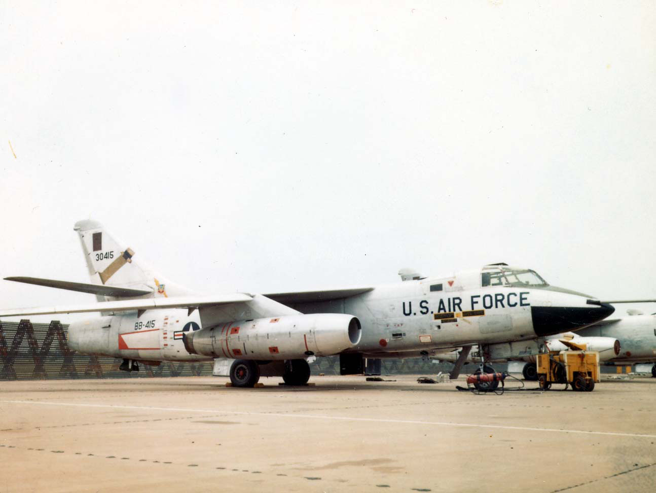 Douglas RB-66B Destroyer 3-4 front view (SN 53-415)